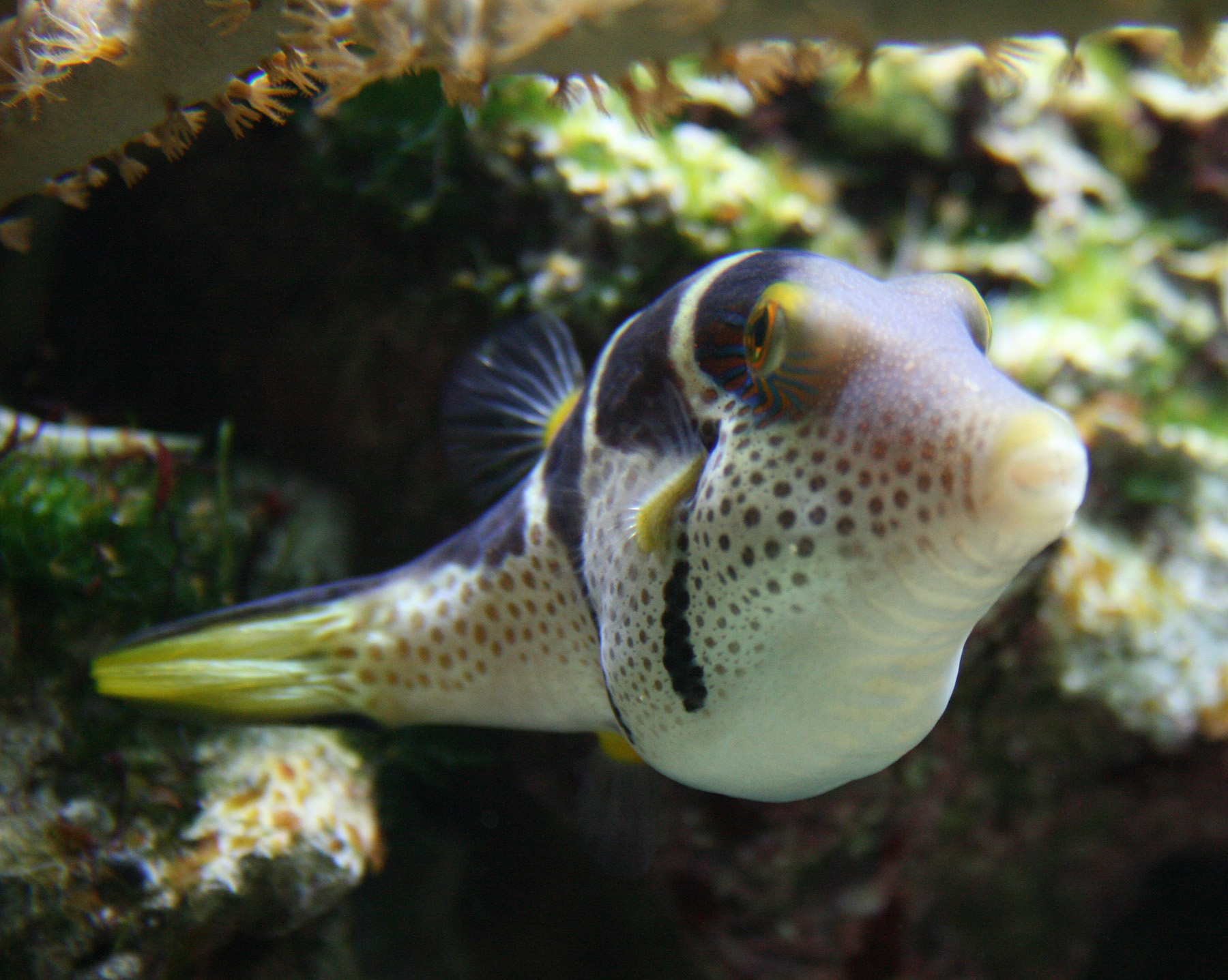 Austria, Vienna, Tiergarten Schönbrunn